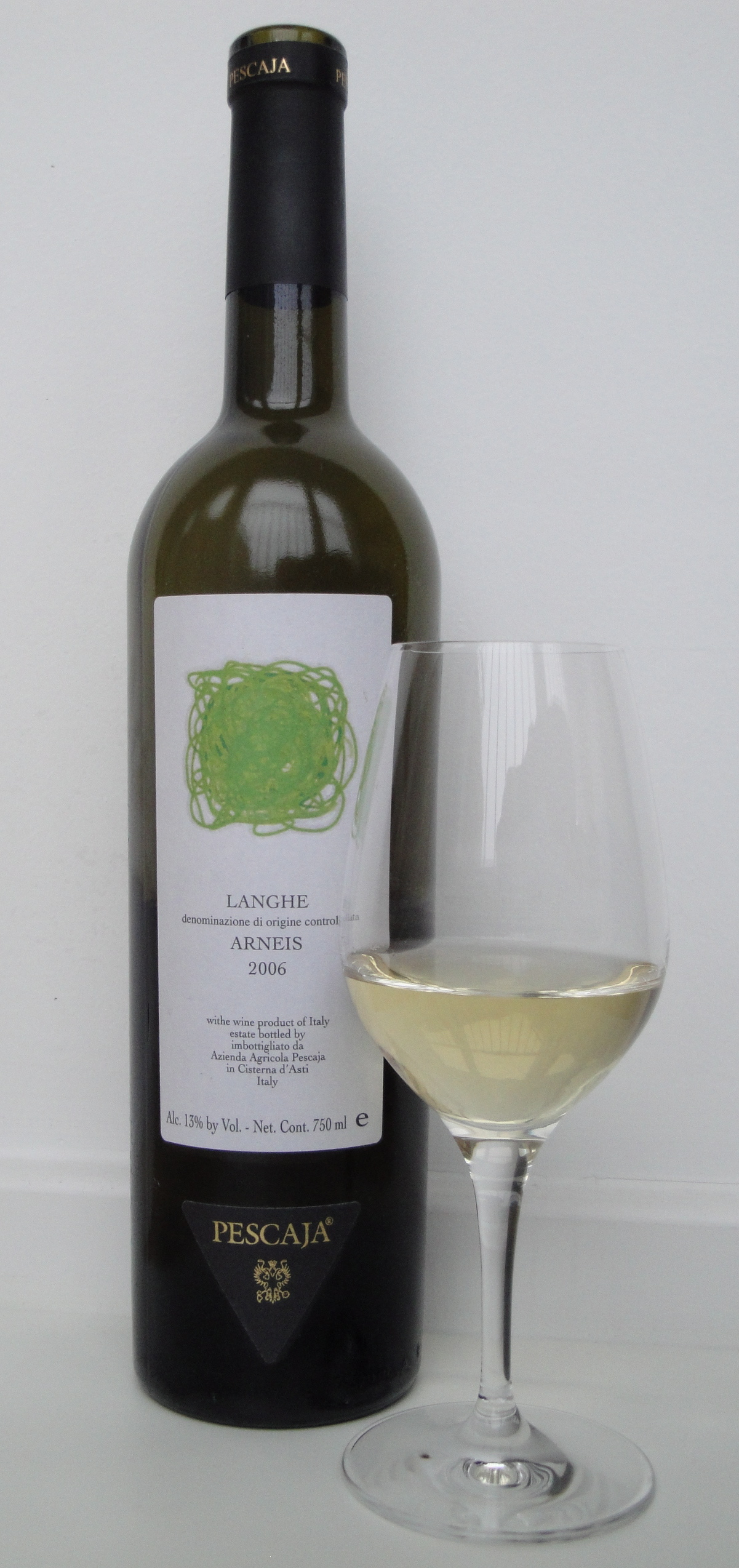 Langhe Arneis 2006 from Pescaja, a white wine from Piemonte (DOC Langhe, grape variety Arneis)